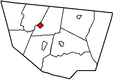 Map of Sullivan County with township and municipal bondaries is taken from US Census website [1] and modified by User:Ruhrfisch in August 2005. My modifications licensed under the GNU Free Documentation License. Source: US Census website [2], modified by User:Ruhrfisch